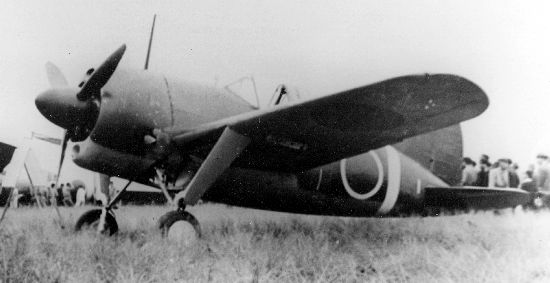 Catalog #: 00019171 Manufacturer: Brewster Designation: F2A Official Nickname: Buffalo Notes: Repository: San Diego Air and Space Museum Archive